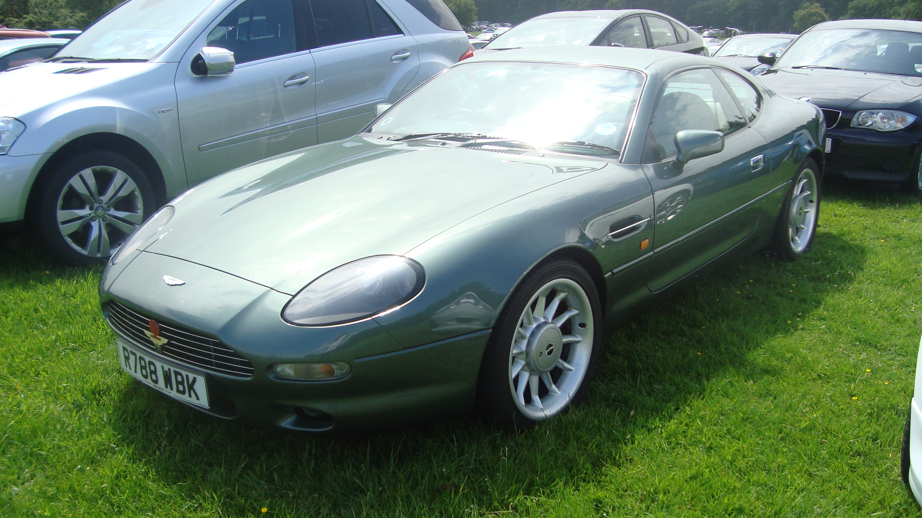 1997 Aston Martin DB7